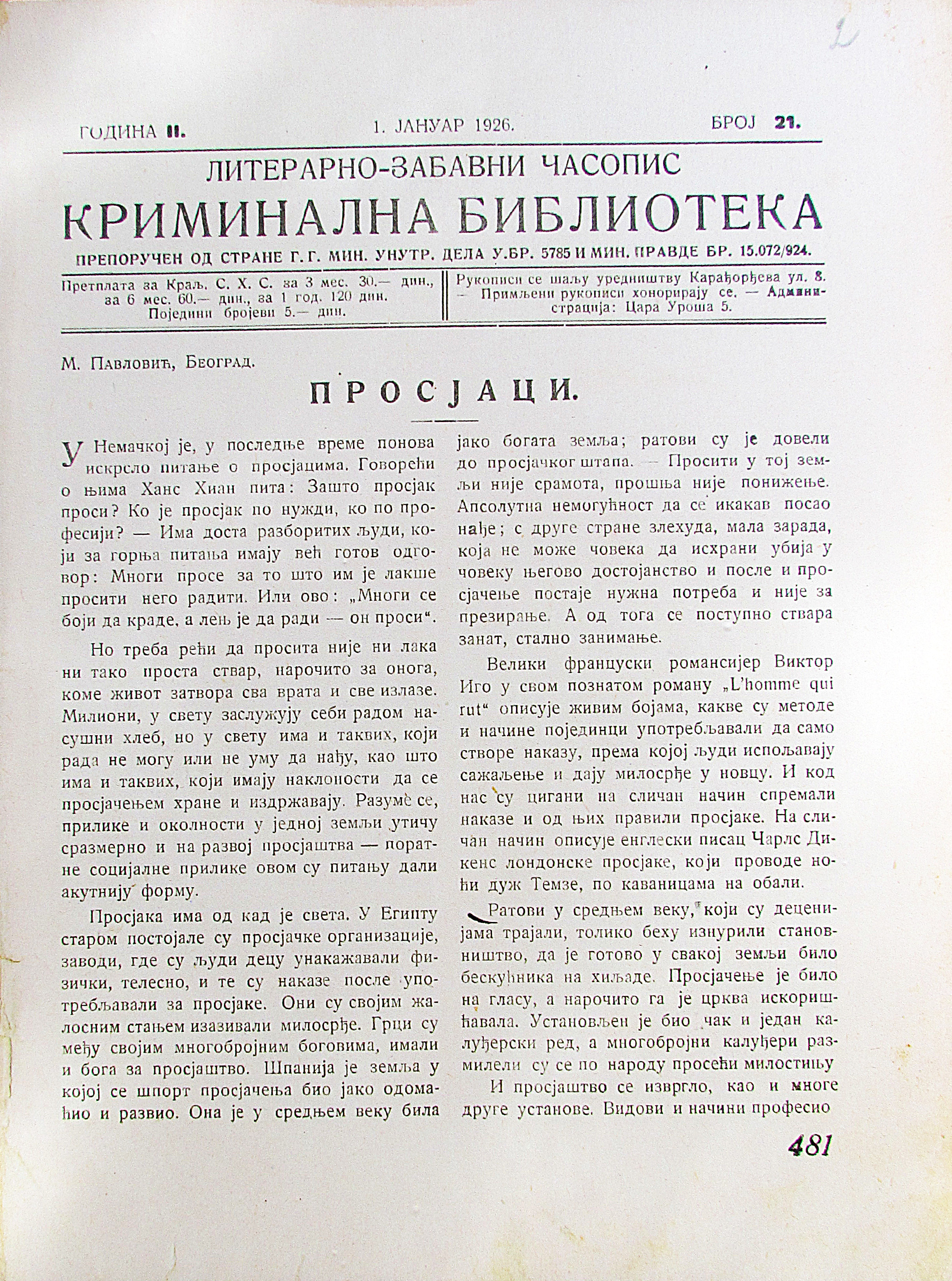 The Beggars, text of M. Pavlović in Criminal Library, 1926